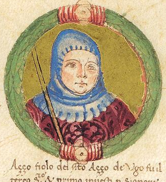 Azzo VII d'Este